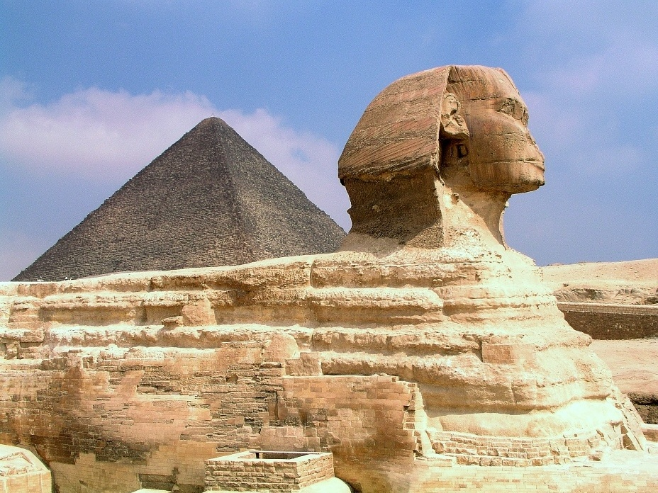 Sphinx from Gizeh, Egypt